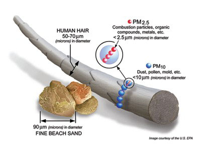 Image comparing PM2.5